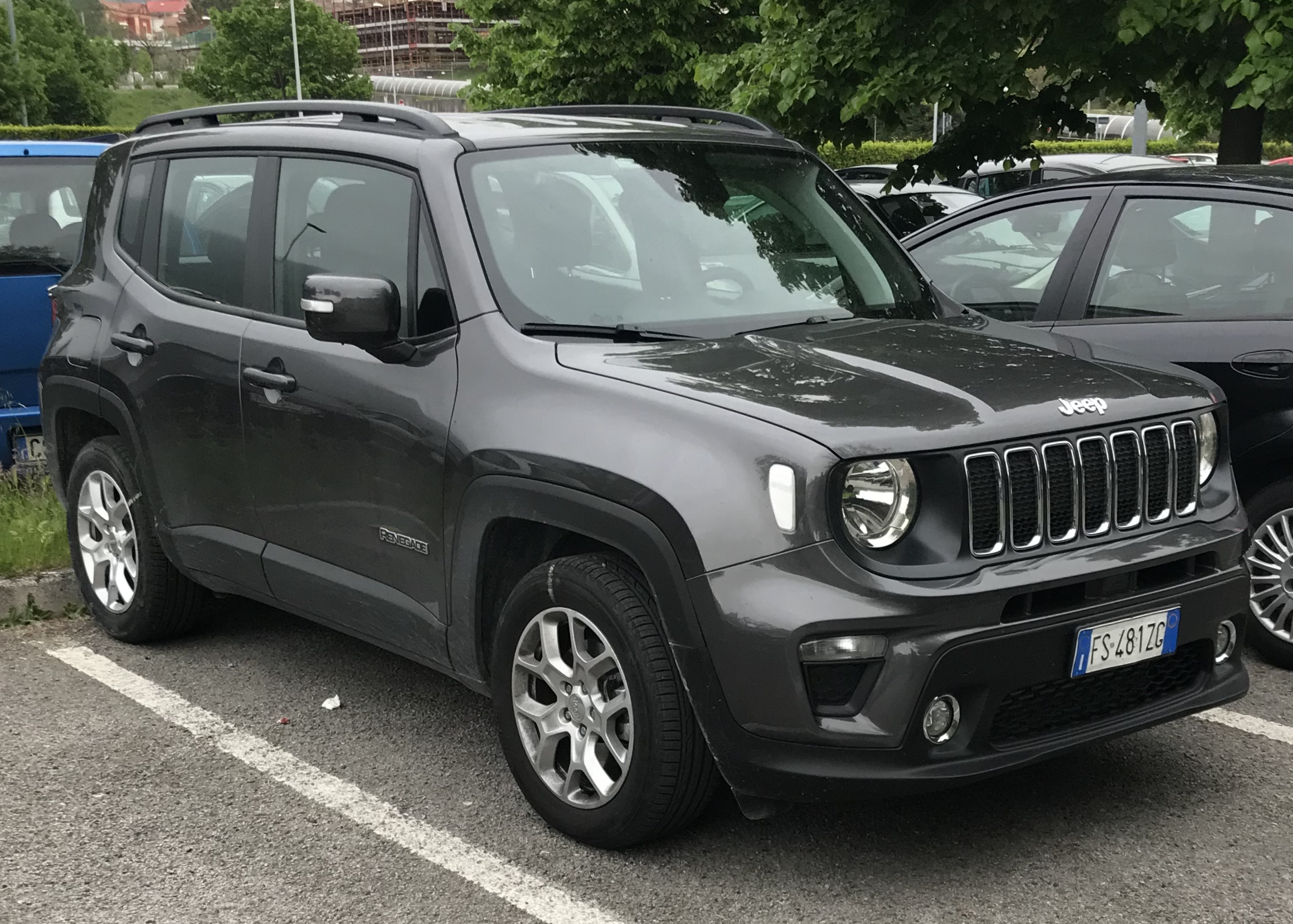 2019 Jeep Renegade 1.6 Multijet